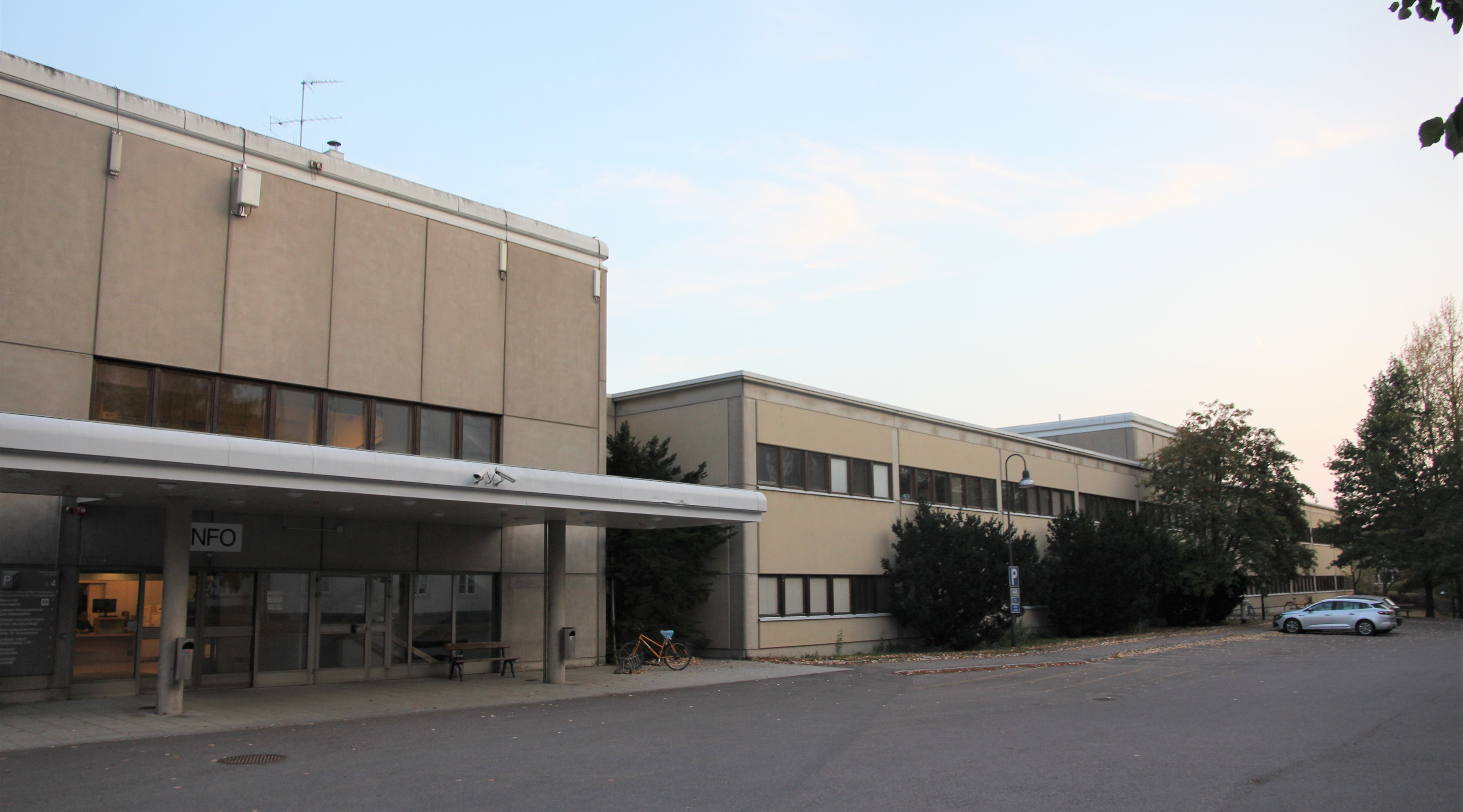 Laakso Hospital, building 4, door P and R, located in Laakso, Helsinki. Address: Lääkärinkatu 8 P and R, 00250 Helsinki, Finland.